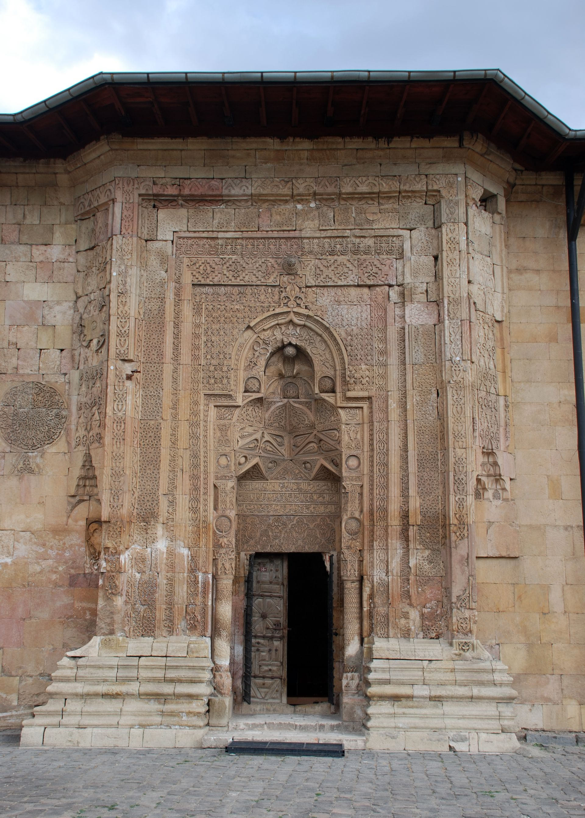 Divriği, west portal mosque